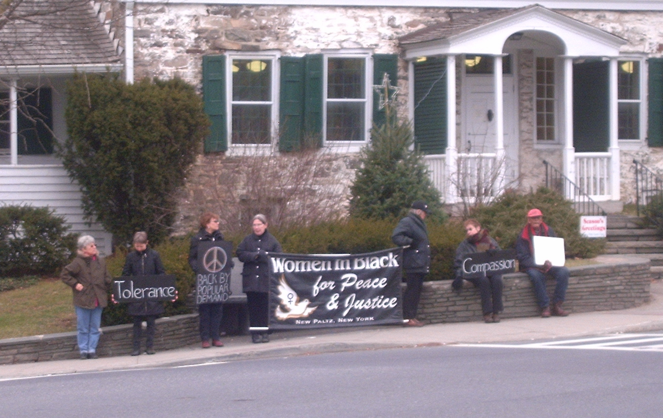 Women in Black for Peace and Justice, a chapter of Women in Black, staging their weekly protest in front of Elting Memorial Library in New Paltz, New York.